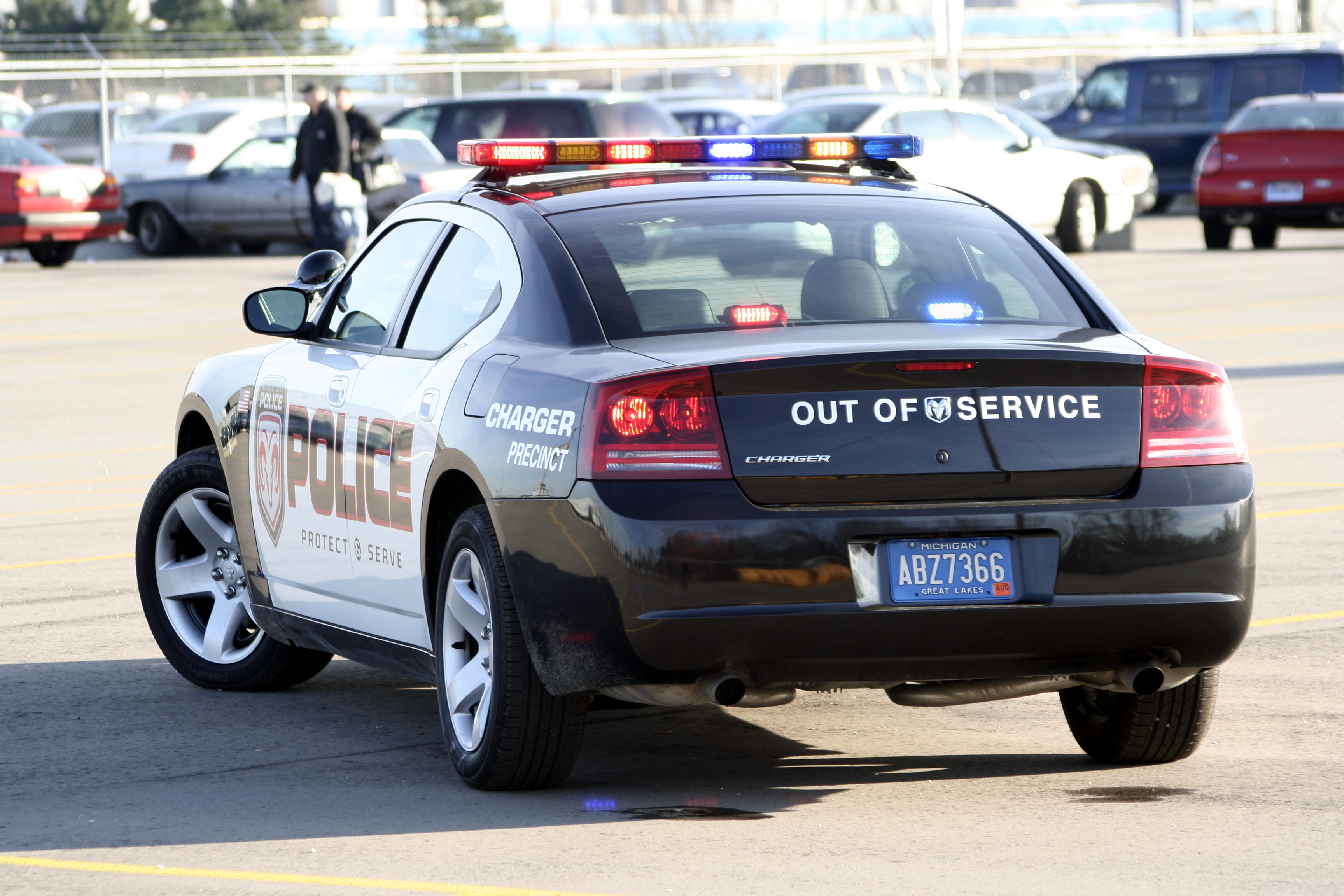 A rear quarter shot of the concept Dodge Charger Police Package Version. The new Dodge Charger is seen as a possible replacement for the Ford Crown Victoria Police Interceptor.